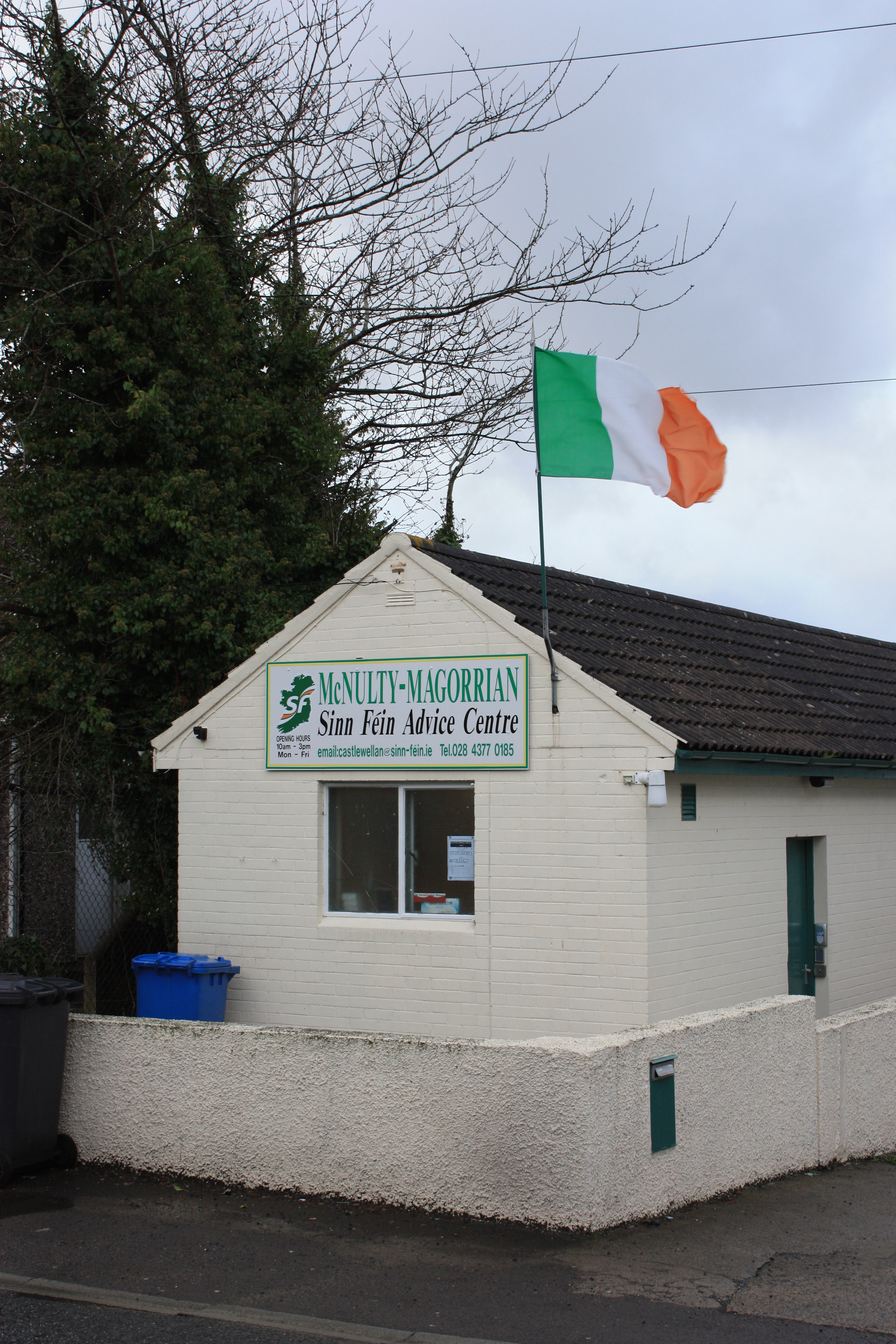 Sinn Fein Advice Centre, Circular Road, Castlewellan, County Down, Northern Ireland, December 2009